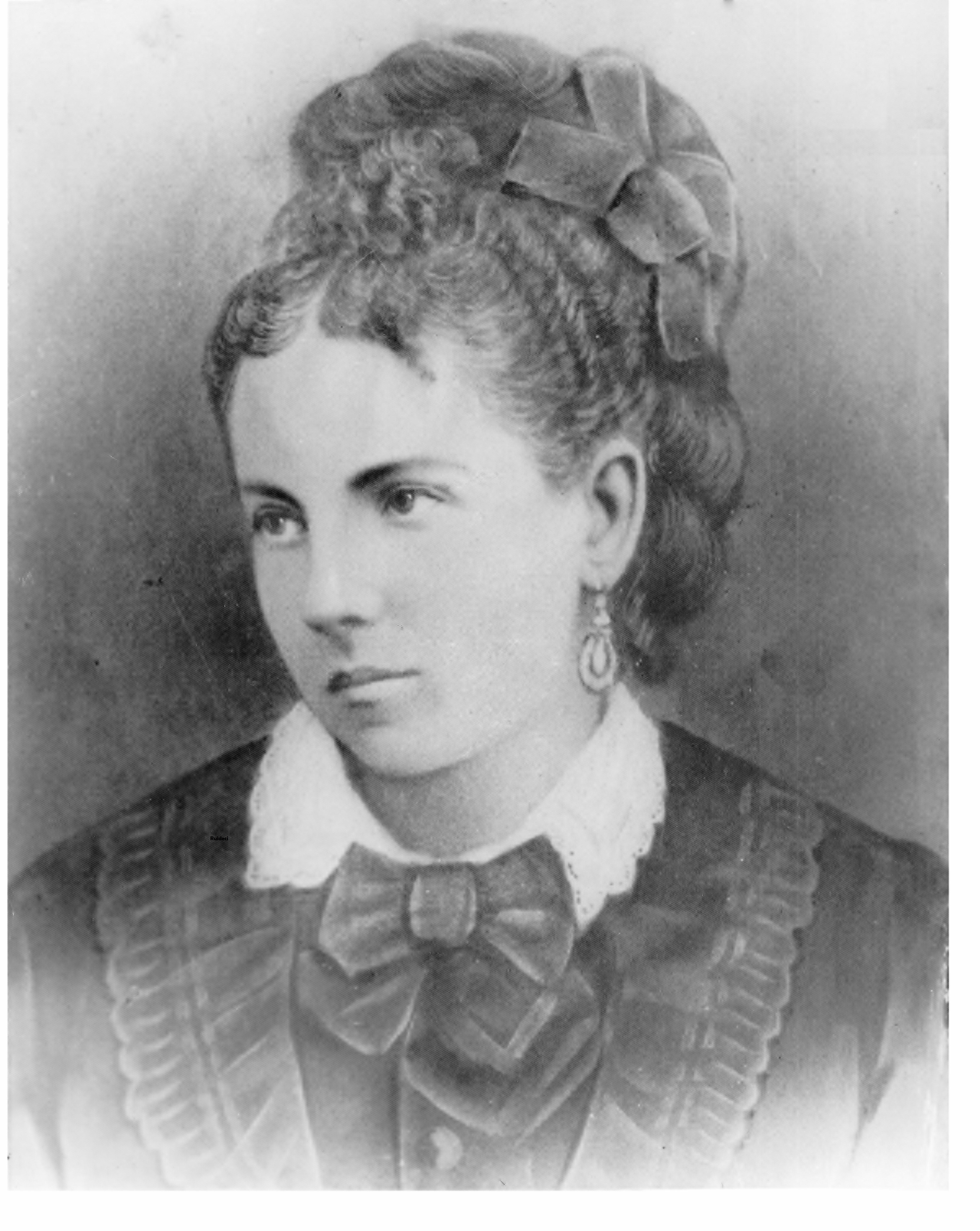 Amelia Barnard Maldonado